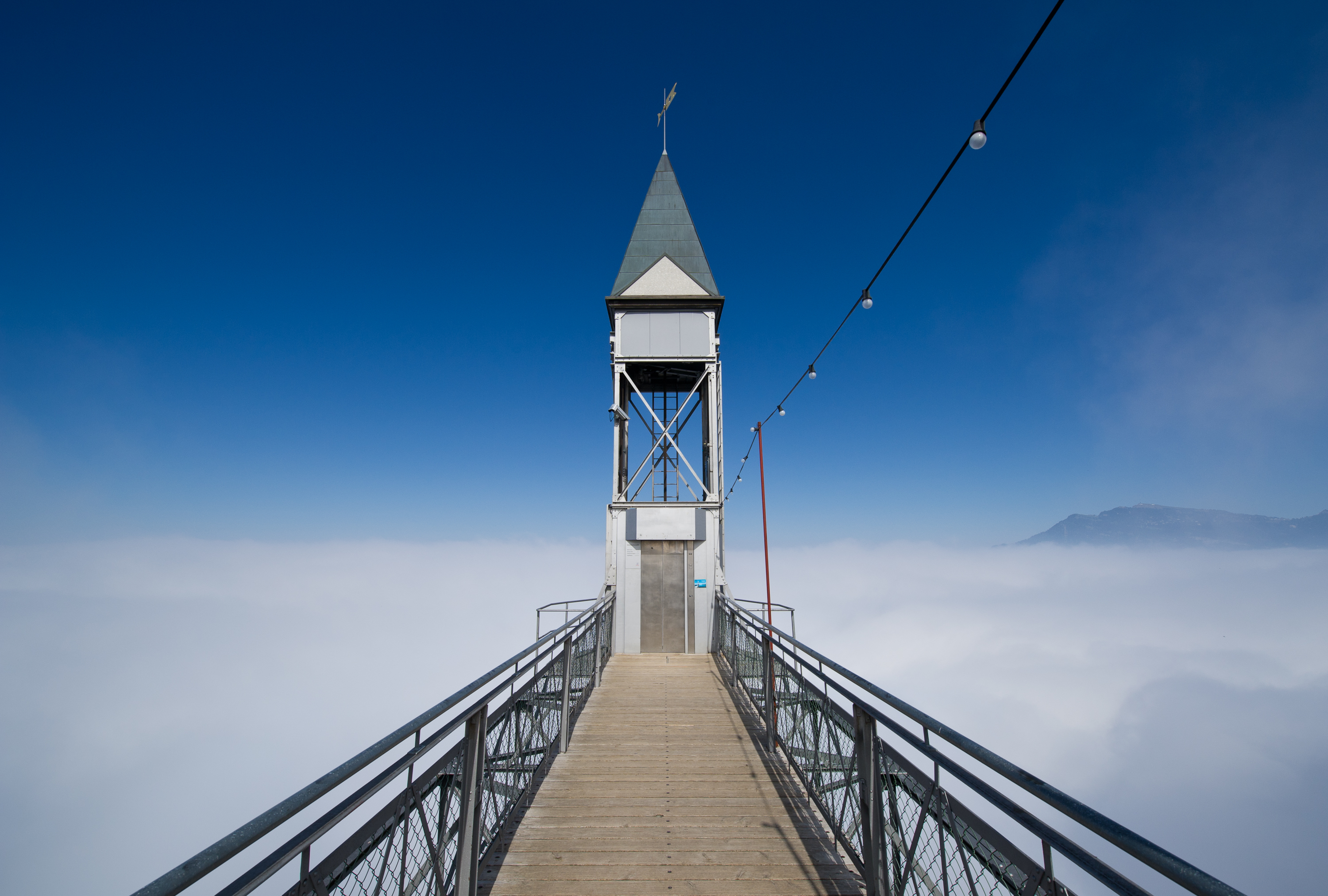 Hammetschwand lift and Rigi mountain in the background above the clouds, Bürgenstock, LU, Switzerland.